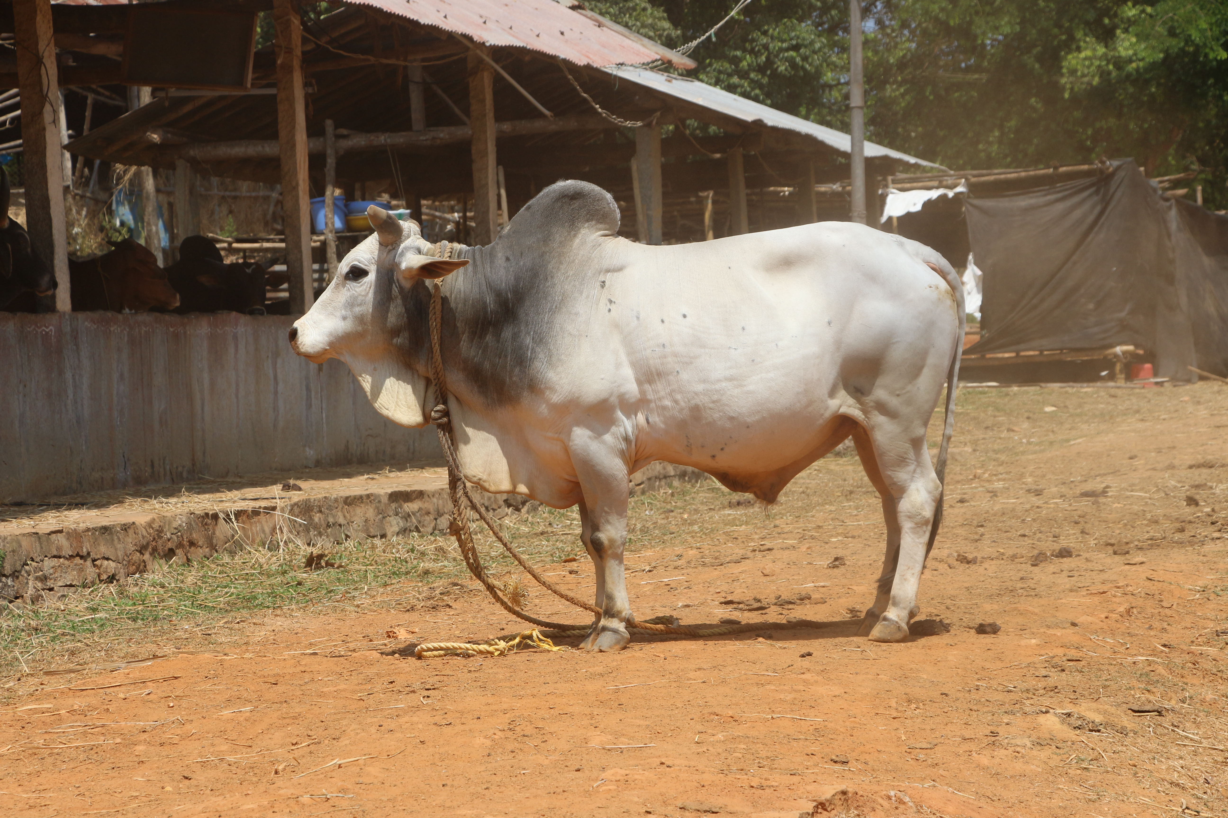 Indian cow breed Malvi ಕನ್ನಡ: ಭಾರತೀಯ ಗೋತಳಿ ಮಾಳವಿ